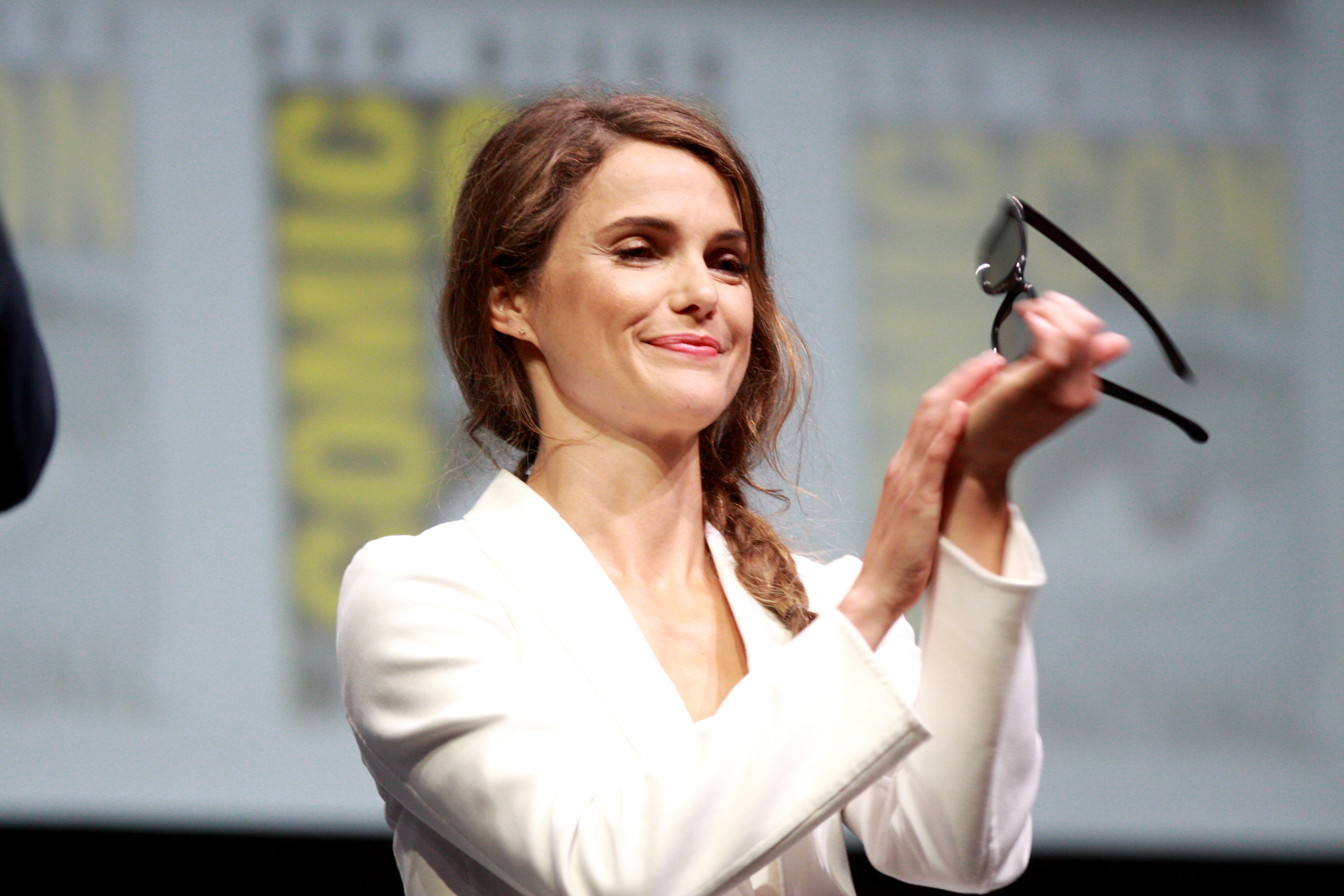 Keri Russell speaking at the 2013 San Diego Comic Con International, for "Dawn of the Planet of the Apes", at the San Diego Convention Center in San Diego, California.